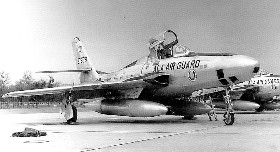 160th Tactical Reconnaissance Squadron - Republic RF-84F-40-RE Thunderflash 53-7538. Aircraft now on static display at Glenn L. Martin Museum, Martin State AP, MD.